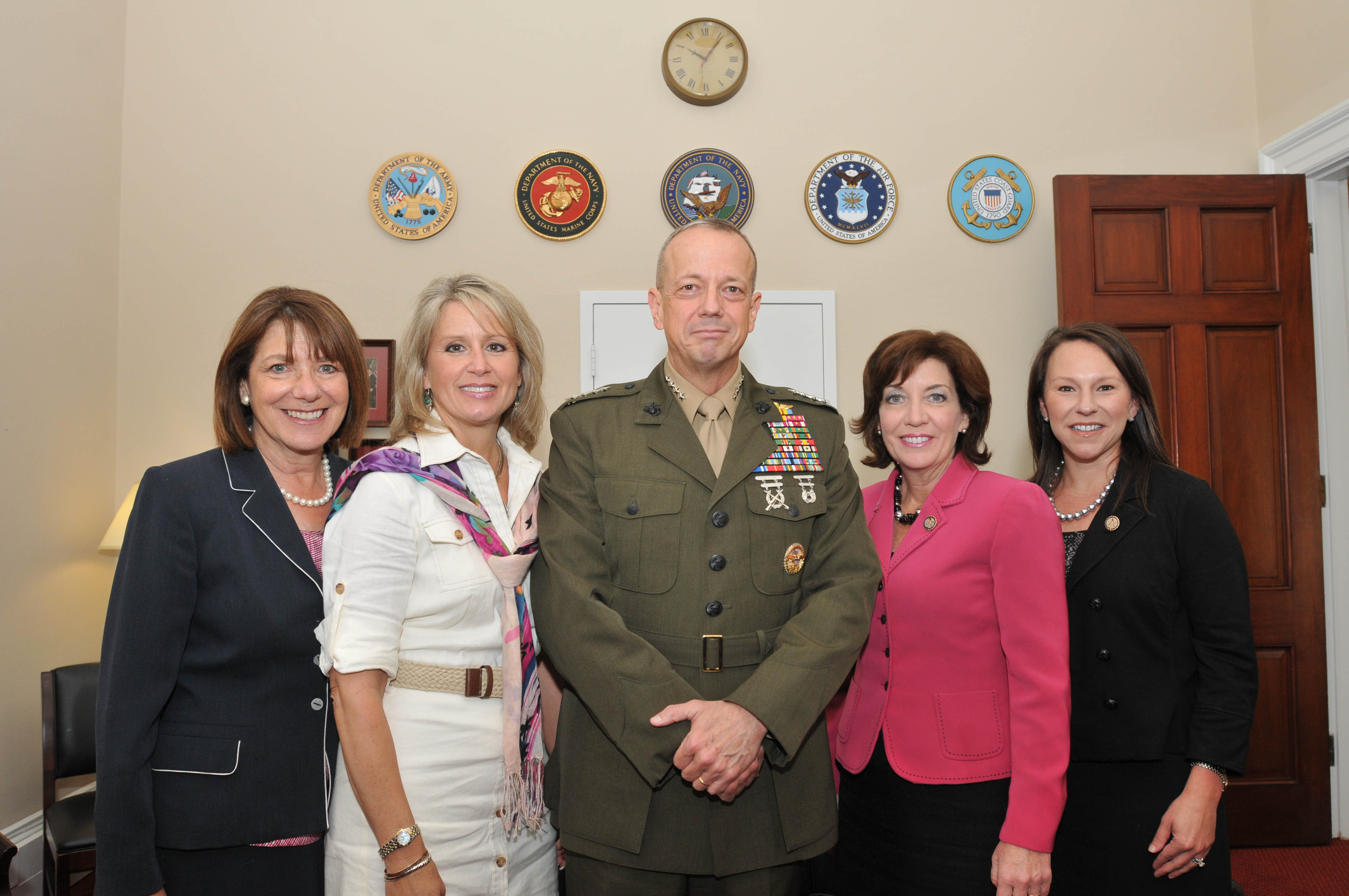 International Security Assistance Force commander U.S. Marine Gen. John R. Allen meets with Alabama Representative Martha Roby in Washington, May 17. (U.S. Army photo by Master Sgt. Kap Kim)